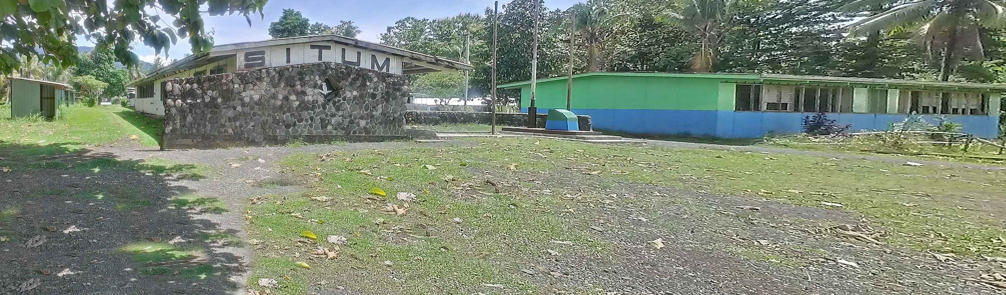 7th Australian Division Memorial School, Situm